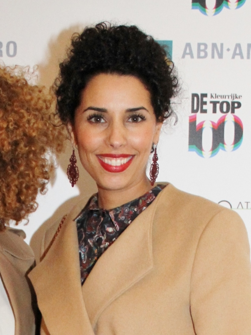 Dutch TV presenter Siham Raijoul (De Kleurrijke Top 100 2014)